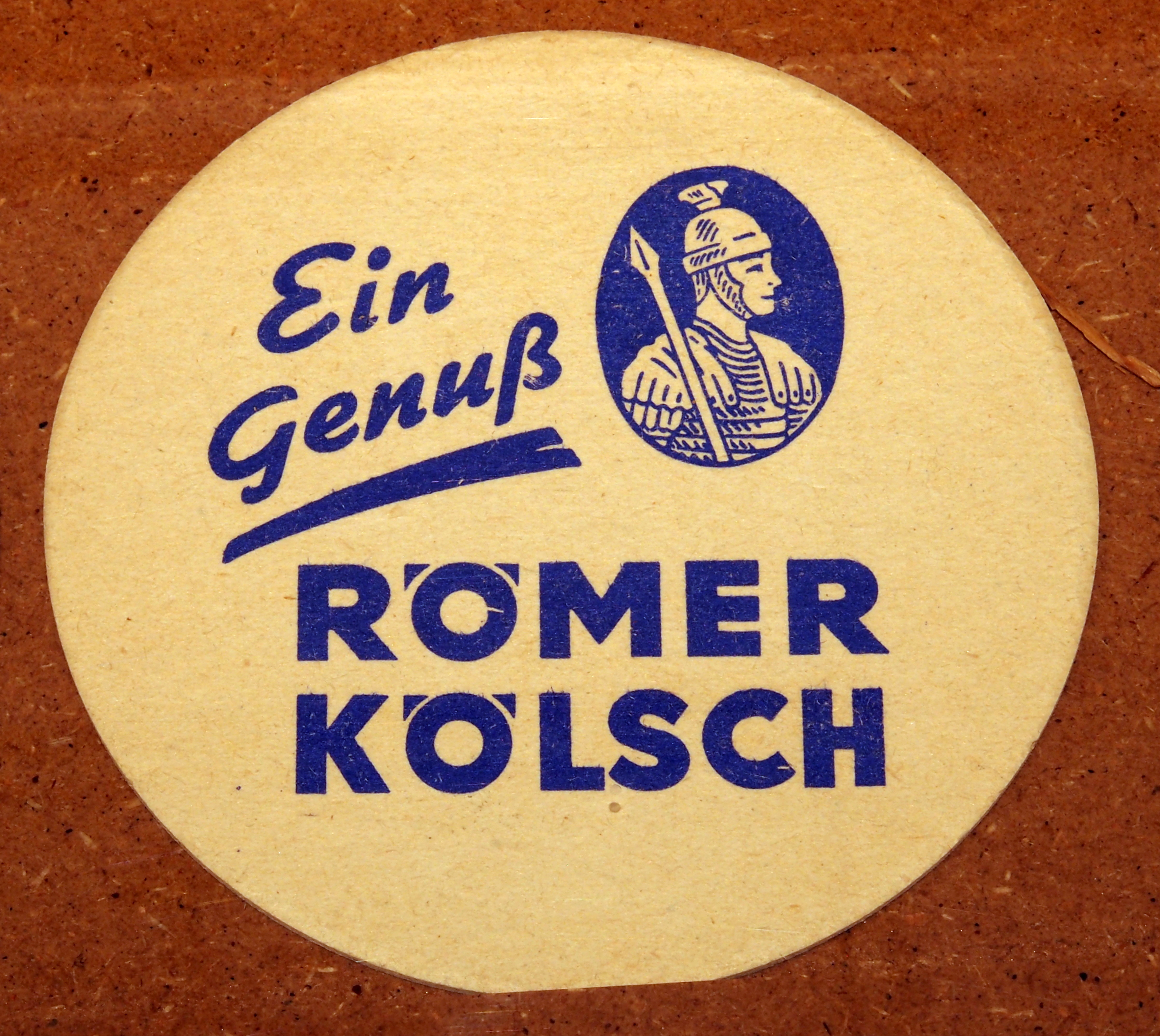 Römer Kölsch. (Photographed through glass.)